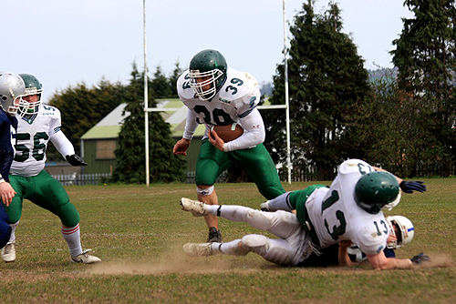 Running Back Erin Wagner finds some space against the Belfast Bulls